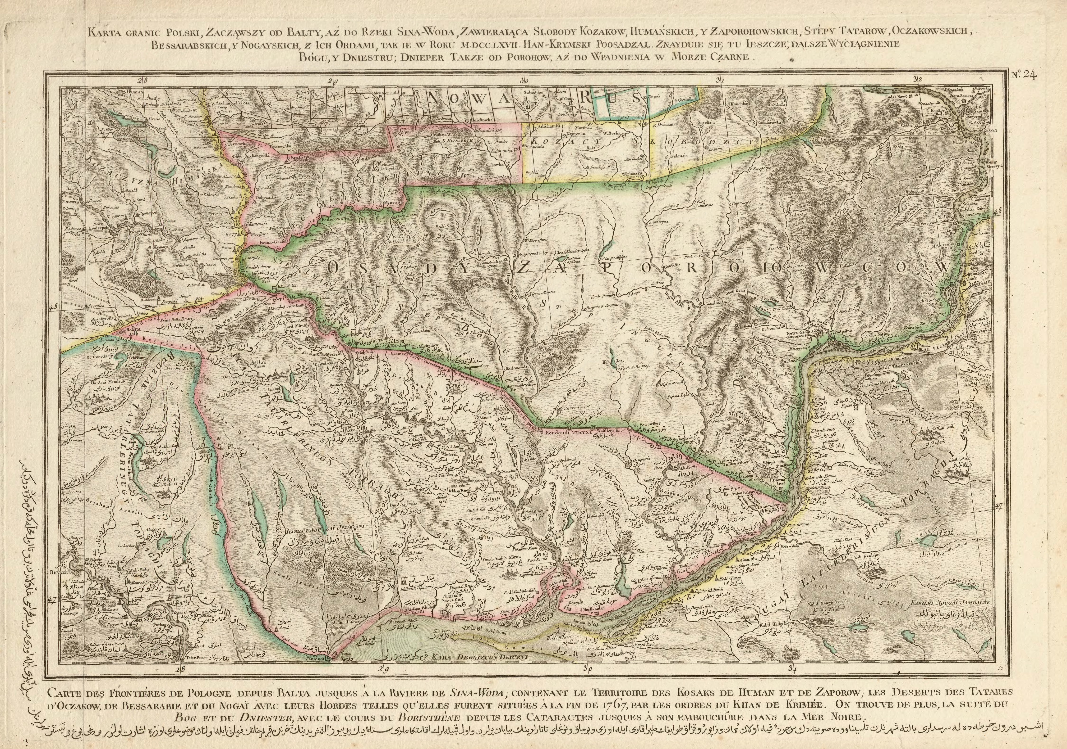 Cossaks